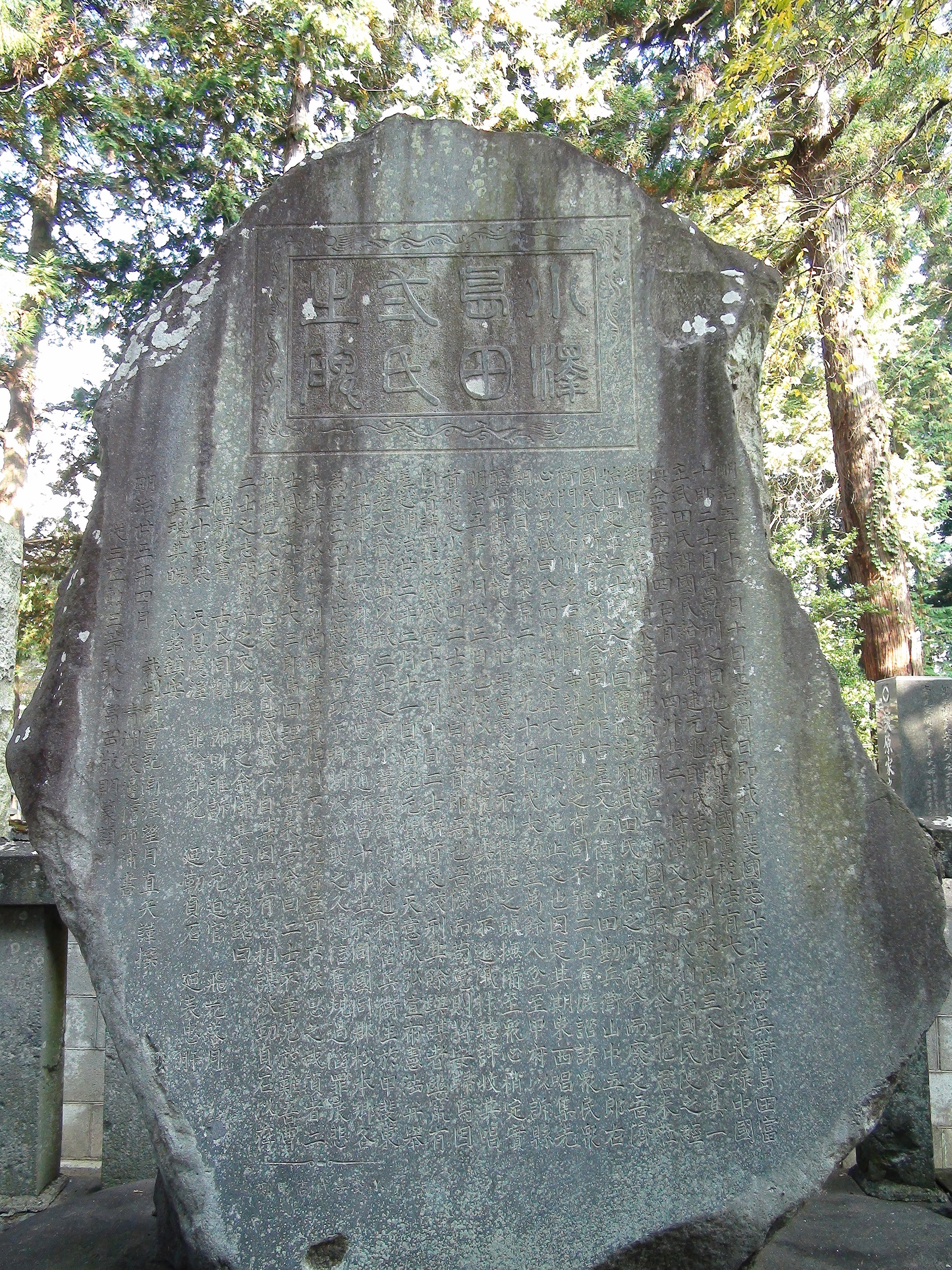 Monument of Daishogiri-sodo peasant uprising